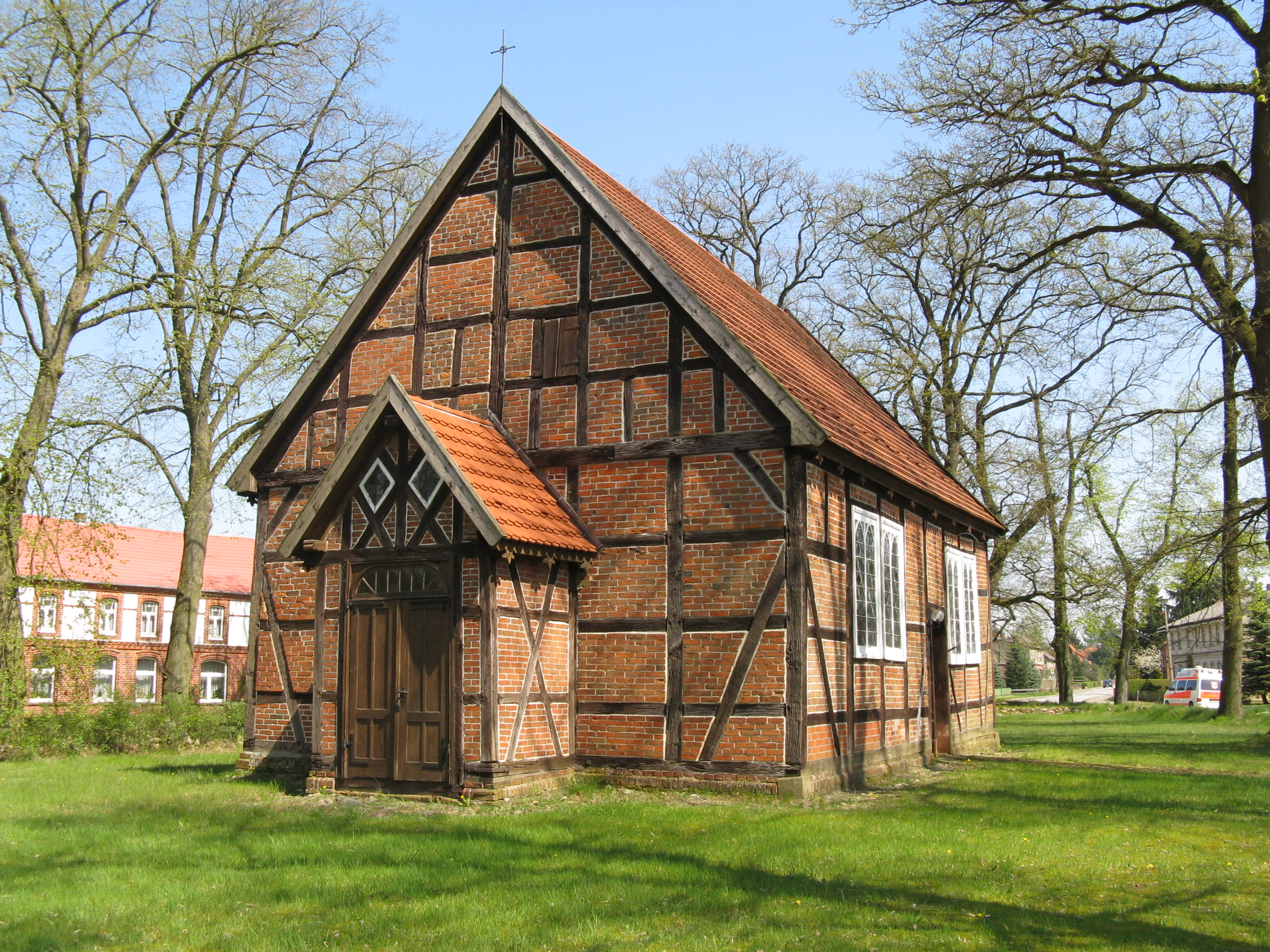 Church in Ziegendorf, Mecklenburg, Germany